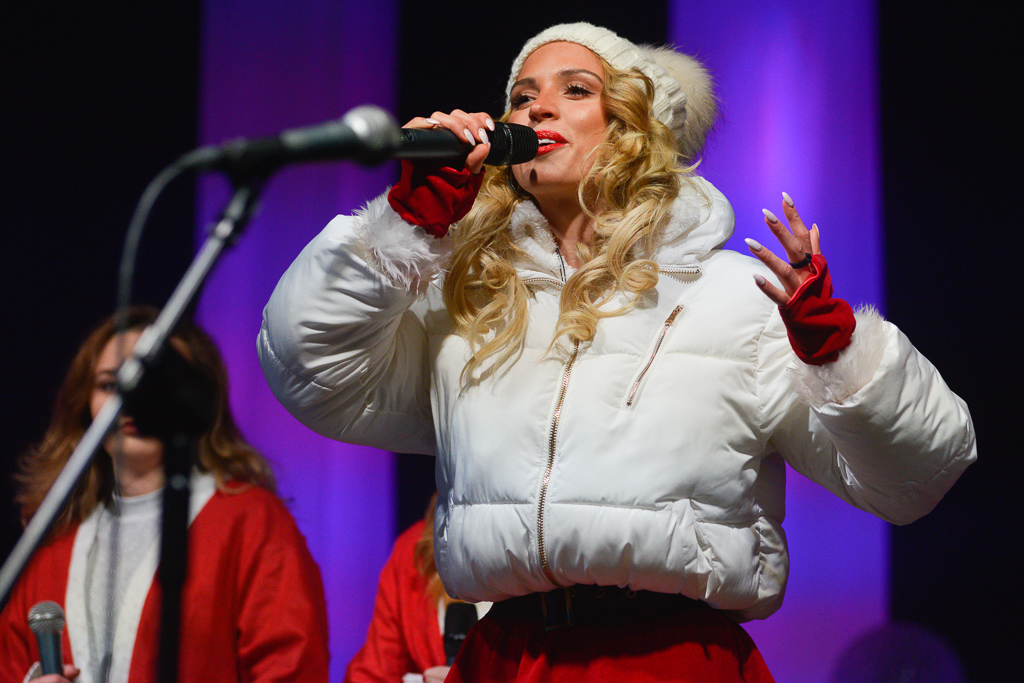 Aneta Sablik, singer. Photography of Christmas concert in Bielsko-Biala, Poland, 2016